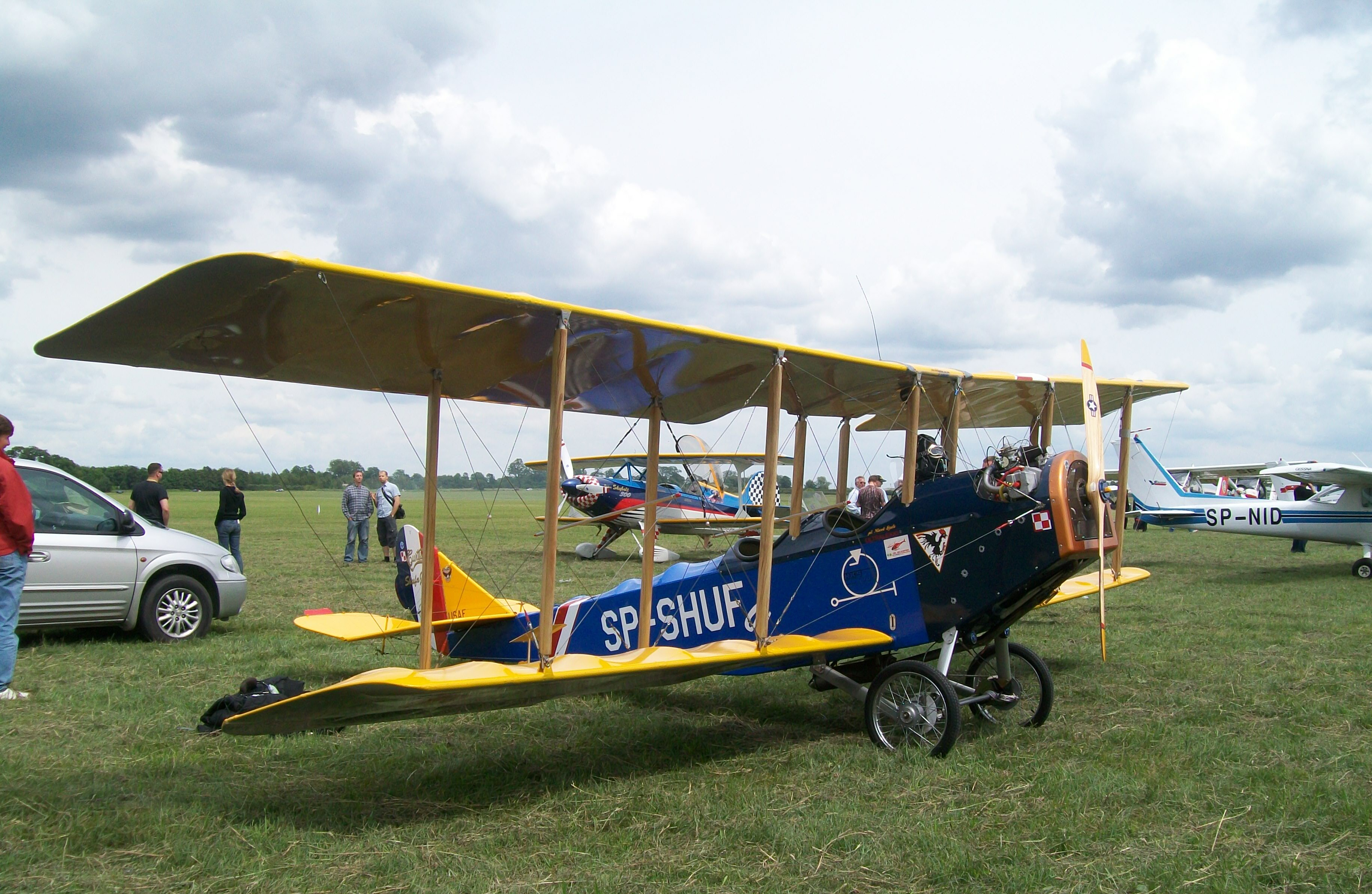 Curtiss JN-4